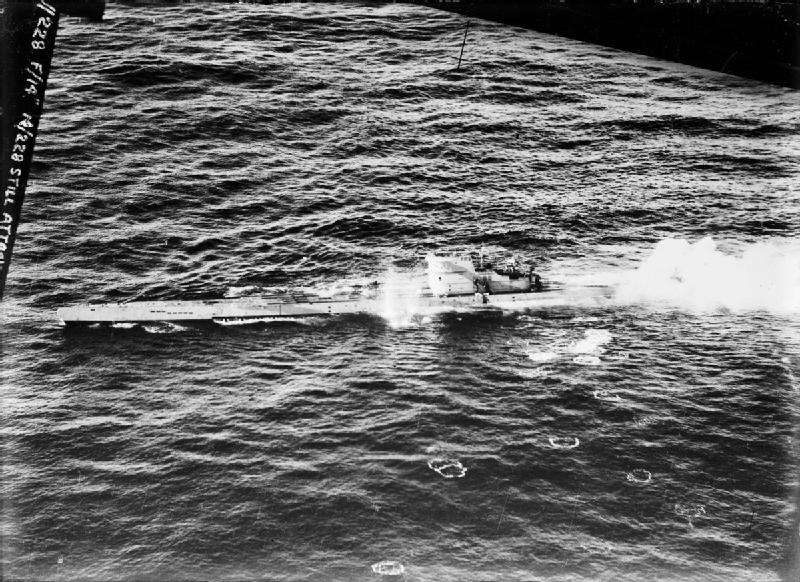 U-boat Warfare 1939-1945 U-boat Losses: U 106, a Type IXB submarine, under air attack from a Sunderland flying boat of 288 Squadron, Royal Air Force. The U-boat later sank.